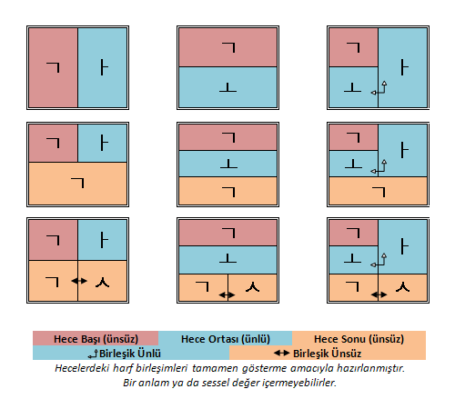 Table for Turkish speaking people that shows Korean alphabet, Hangul's syllable formation layout with examples.